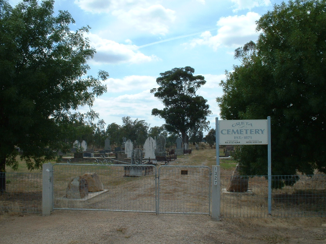 Cemetery at Greta, Victoria. Bushrangers Dan Kelly and Steve Hart are buried in unmarked graves. Ned Kelly's mother and brother Jim and also buried here.